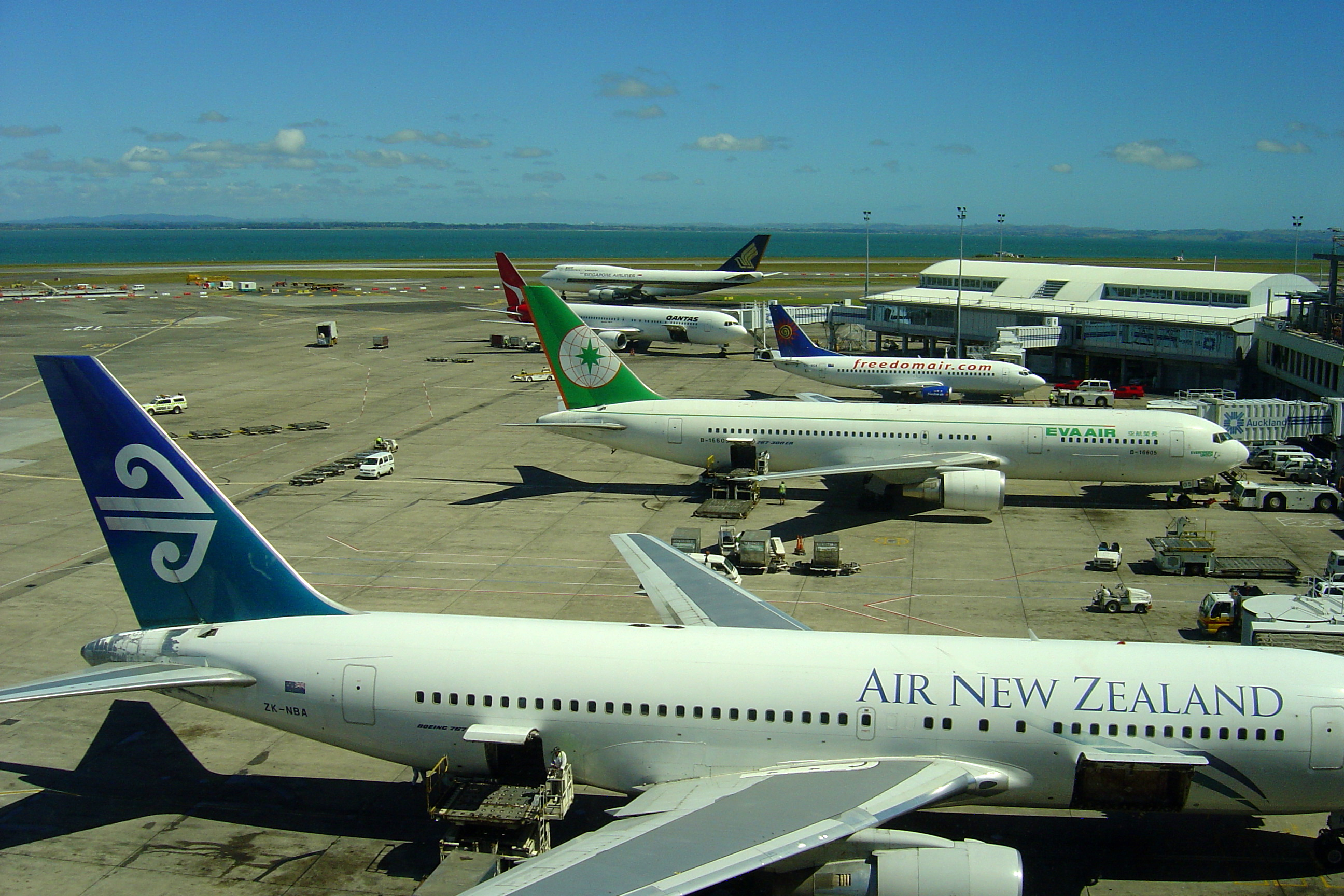 Airliners at Auckland International Airport